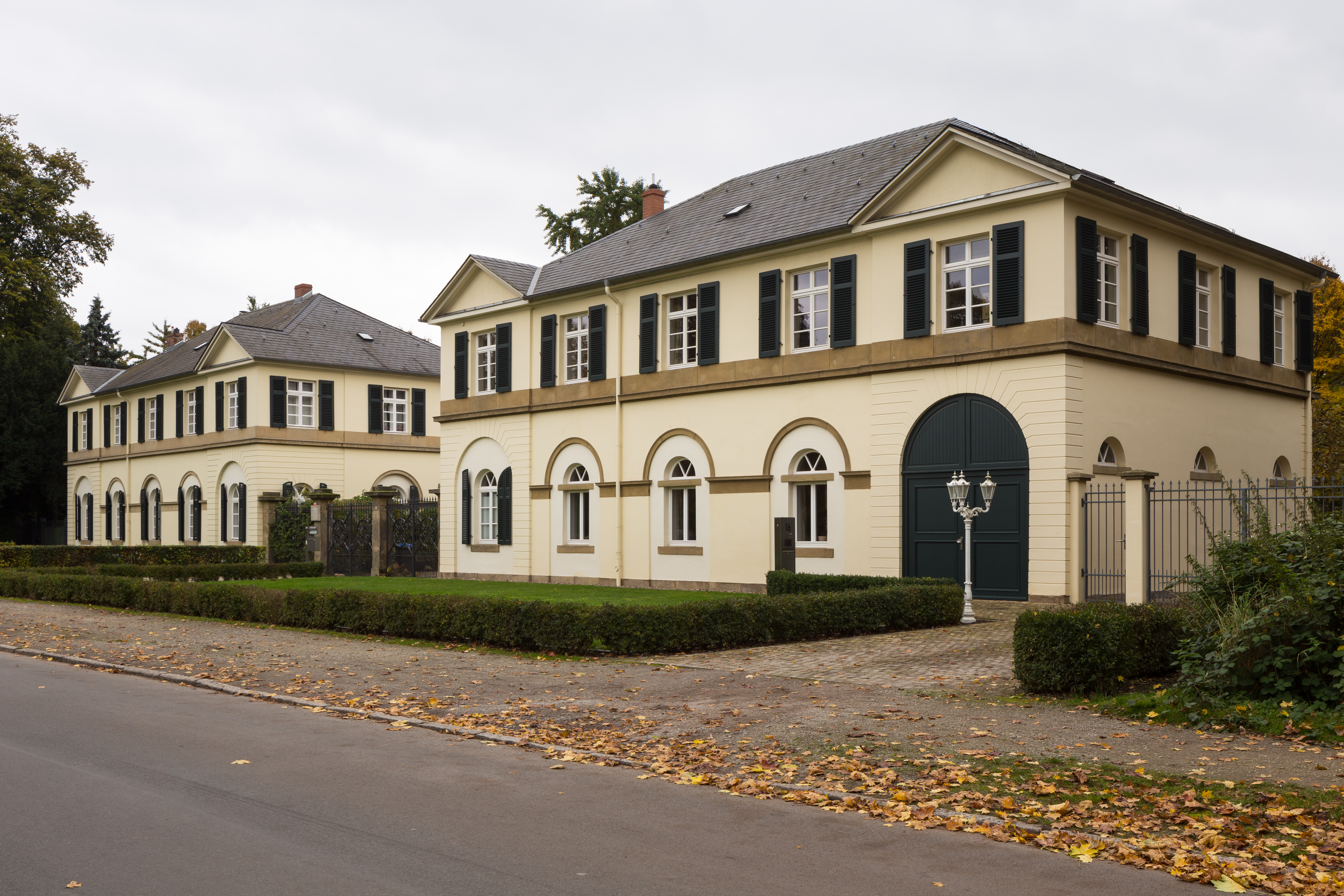 Cavalier houses located at Jaegerstrasse no. 15 and 16 in Nordstadt quarter of Hannover, Germany. The buildings were created by architect G. L. F. Laves around 1826.